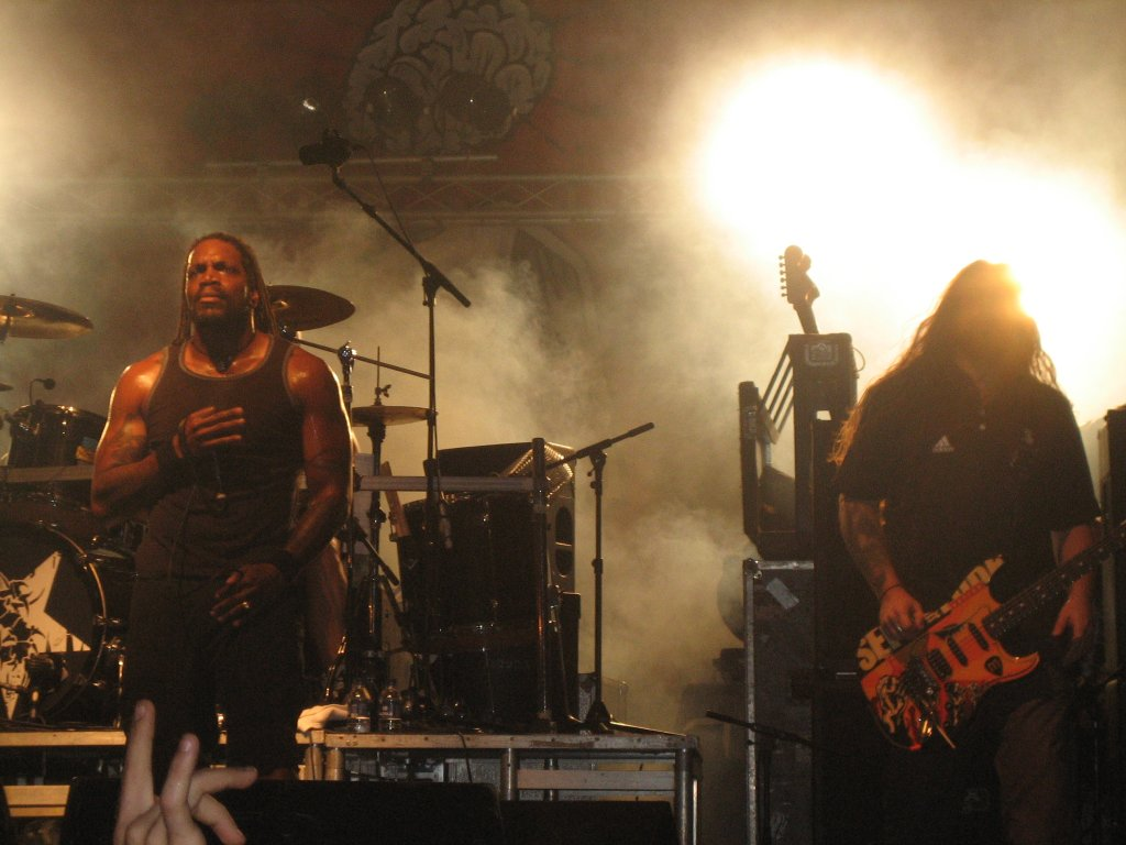 Sepultura on stage.